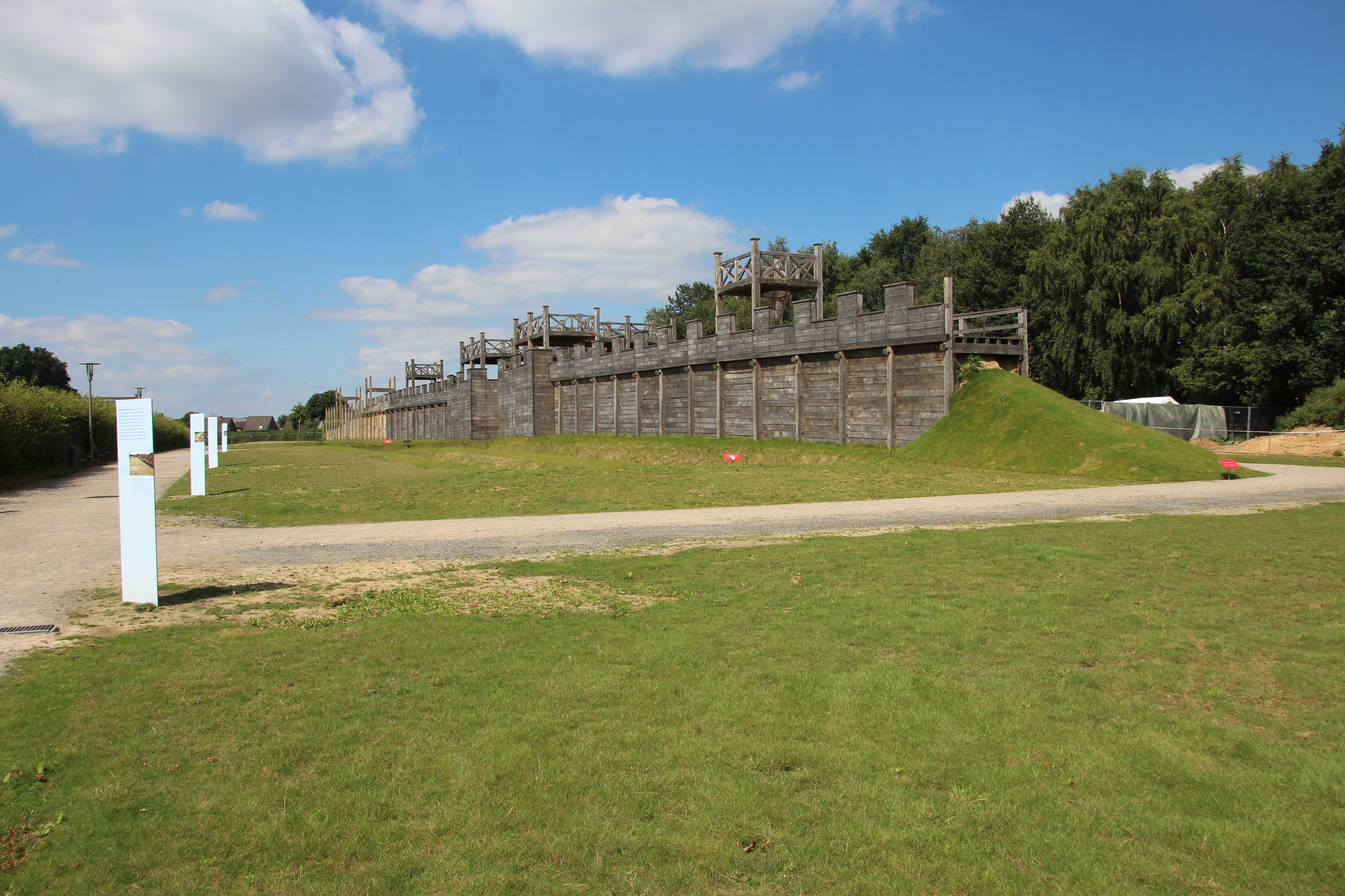 Wooden fortification (reconstruction) at the Westphalian Museum about Romans, Haltern.